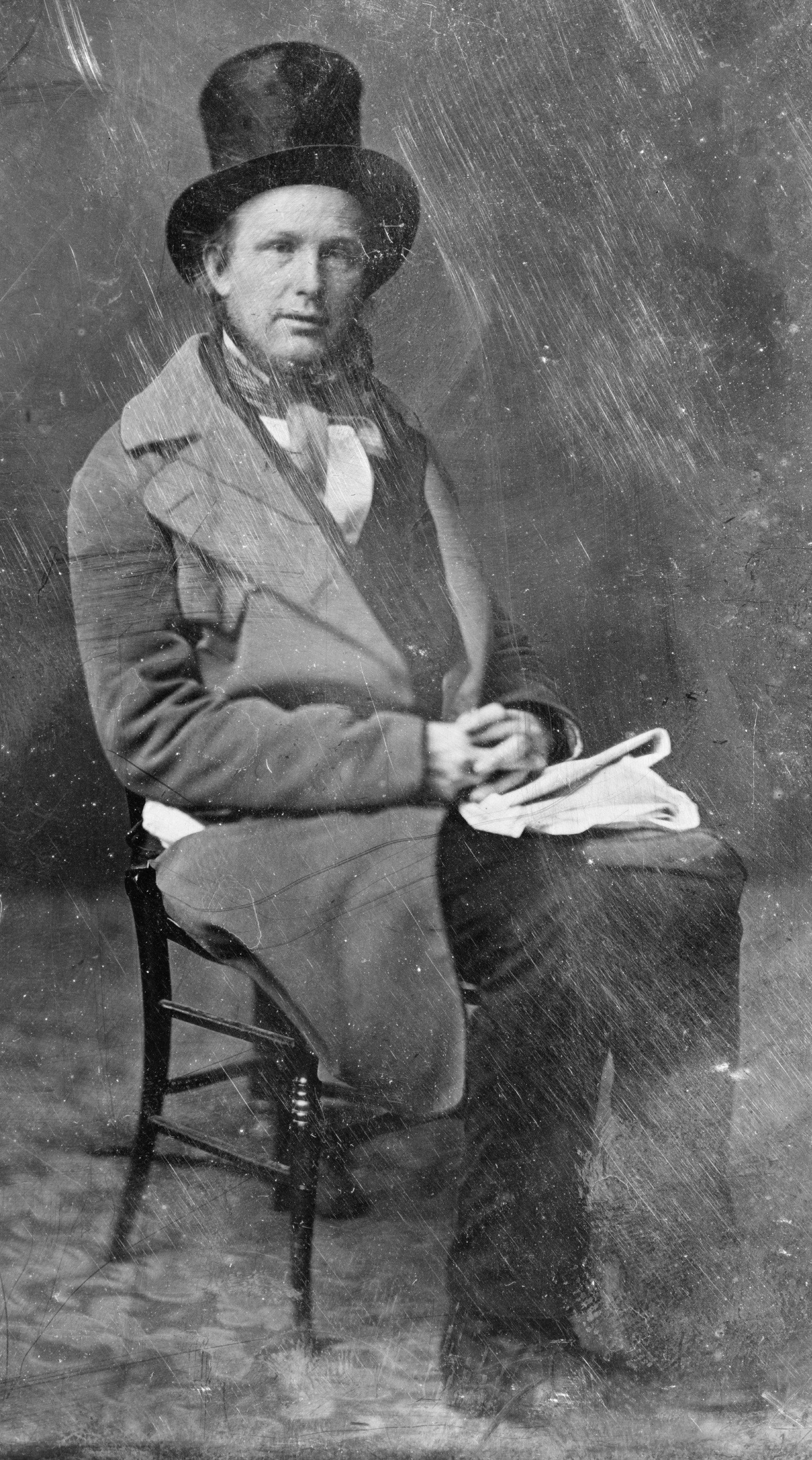 Horace Greeley Full-length portrait, three-quarters to the right, seated in chair, wearing tall hat, folded newspaper in lap, carpet on floor.